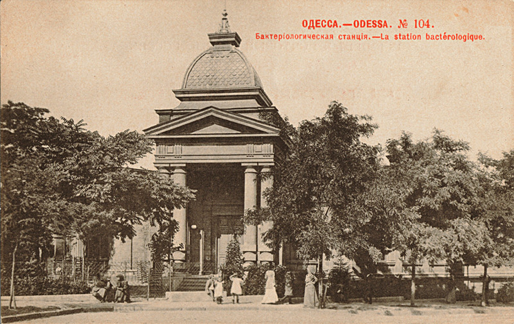 The Bacteriologic Station. Odessa